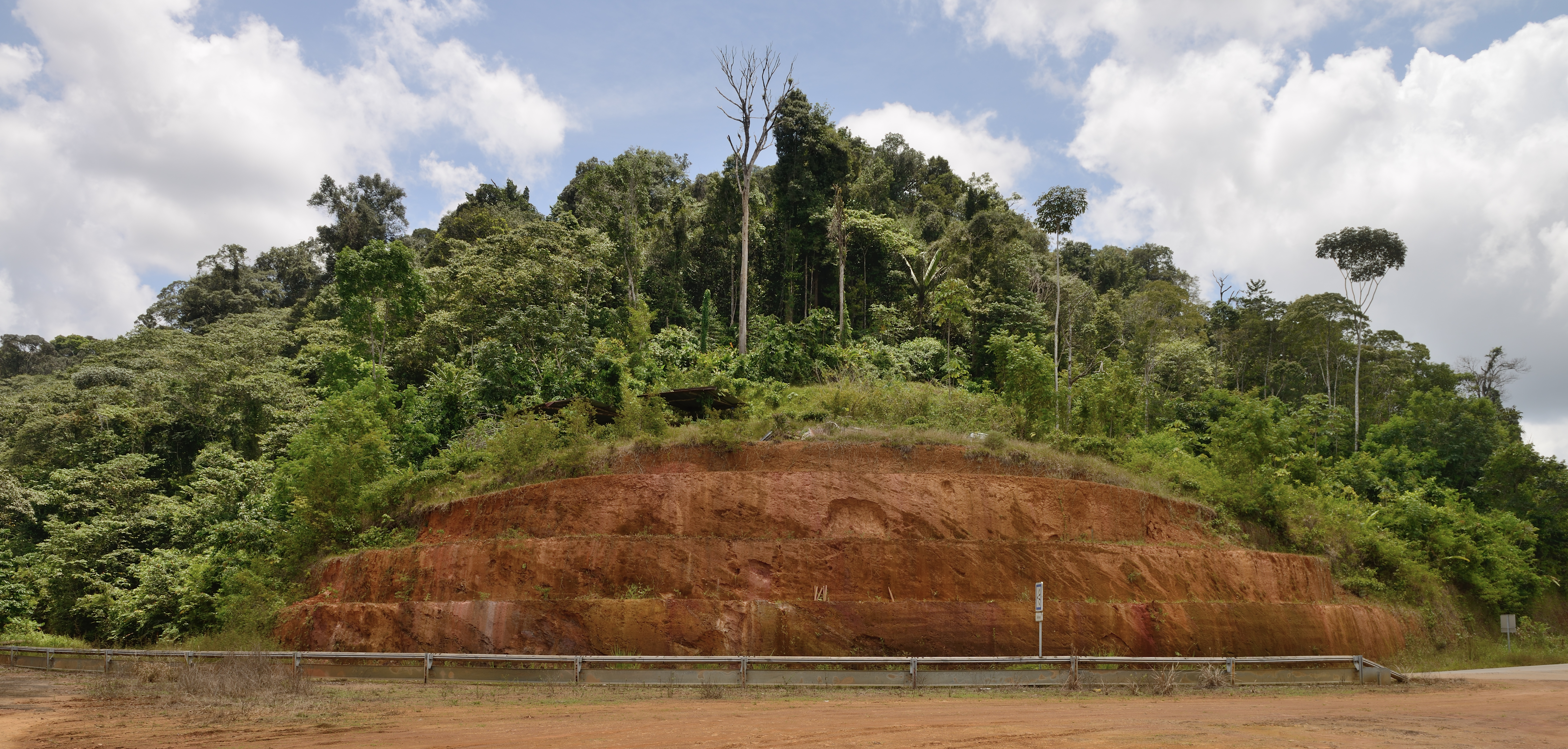 Tropical soil in French Guiana at Bellevue, on the road to Cacao.